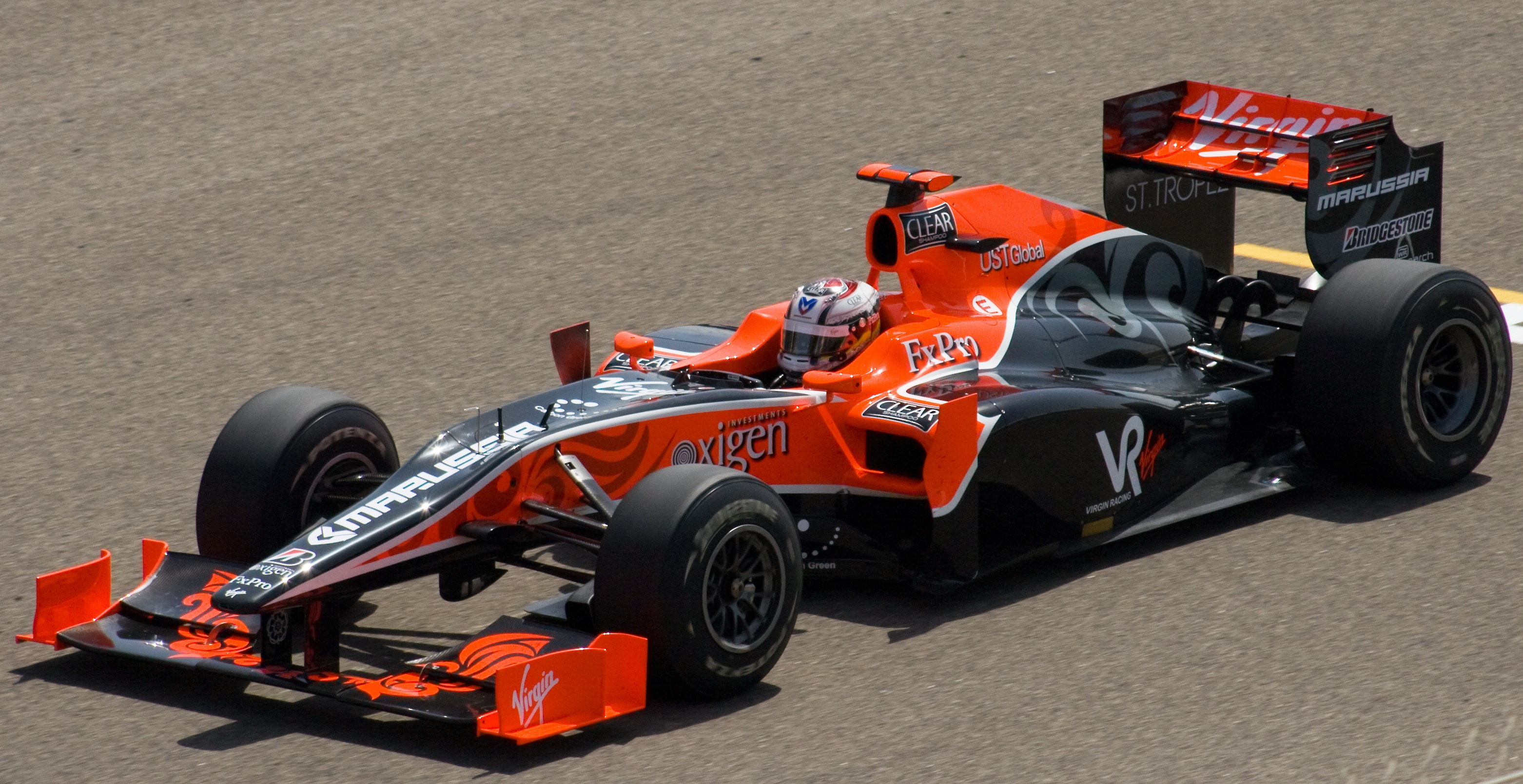 Timo Glock during a Friday practice session at the 2010 Bahrain Formula One.